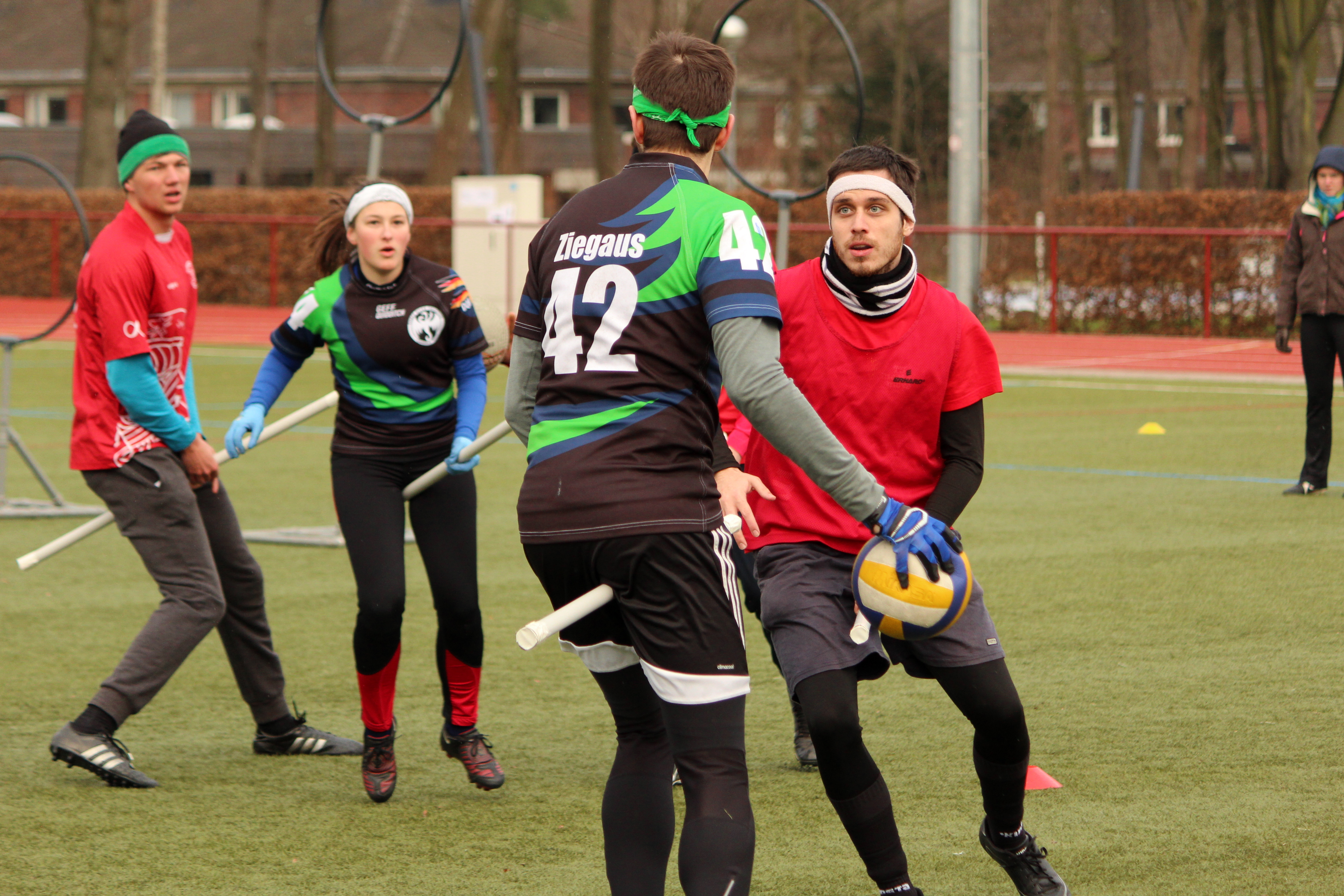 Quidditch match at the German Cup 2016. Passau Three River Dragons vs. Quidditch Darmstadt.